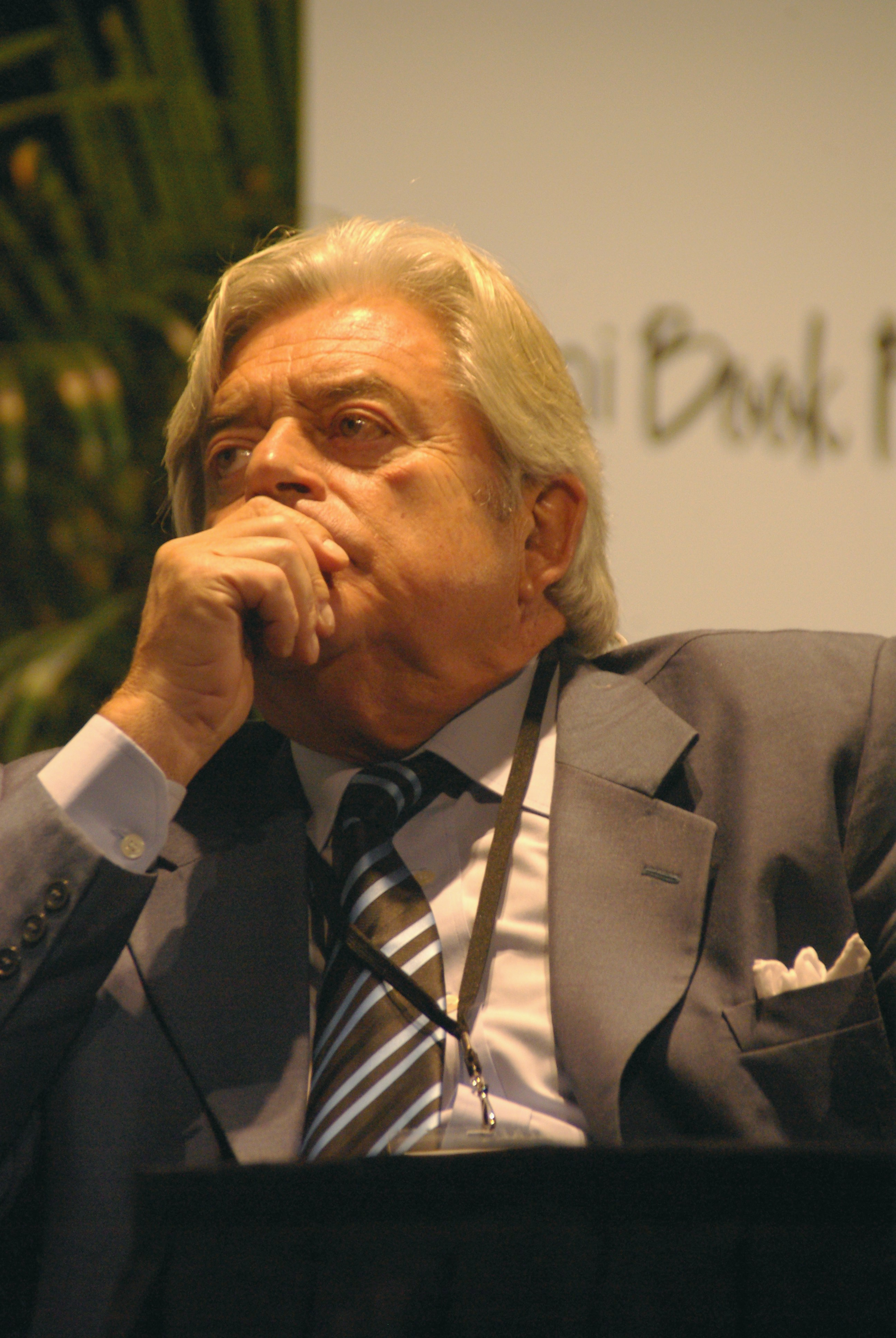 Former president of Uruguay Luis Alberto Lacalle at the 2011 Miami Book Fair International